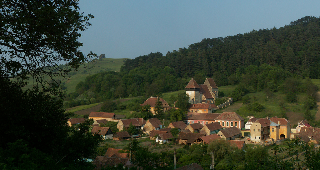 view upon Copșa Mare (Grosskopisch) village, Romania